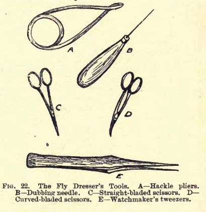 Fig 22 From The Trout Fly Dresser's Cabinet (or How To Tie Flies) H. G. McClelland (London 1919)